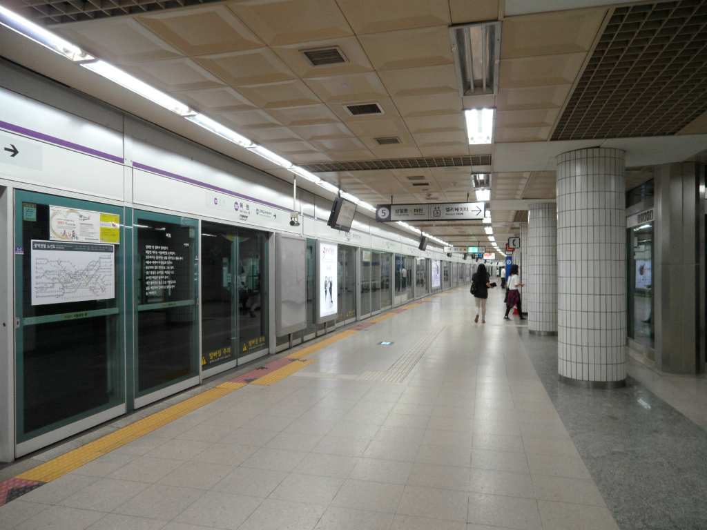 Platform of Mok-dong Station